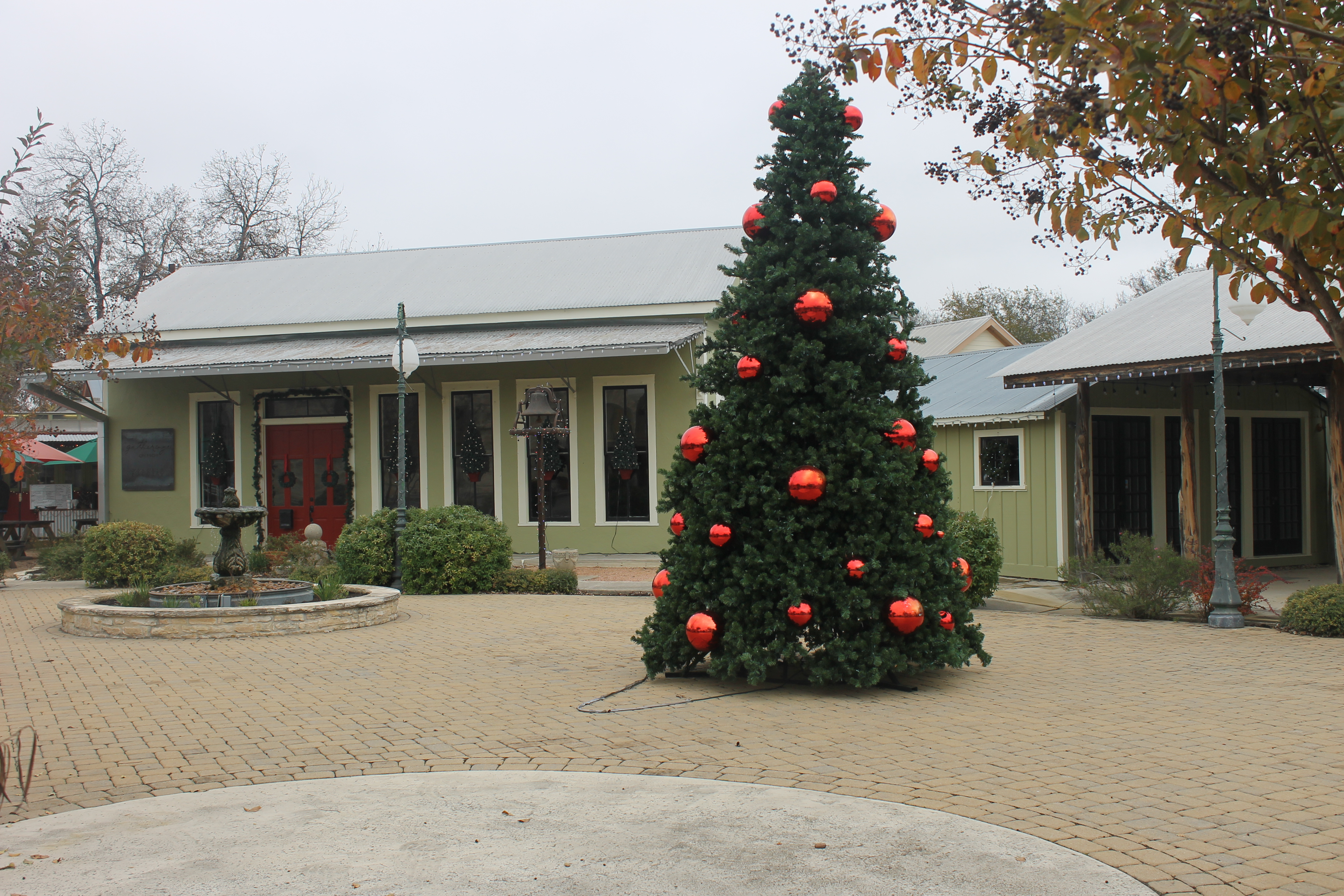 Comfort TX, town square at Christmas (2016)